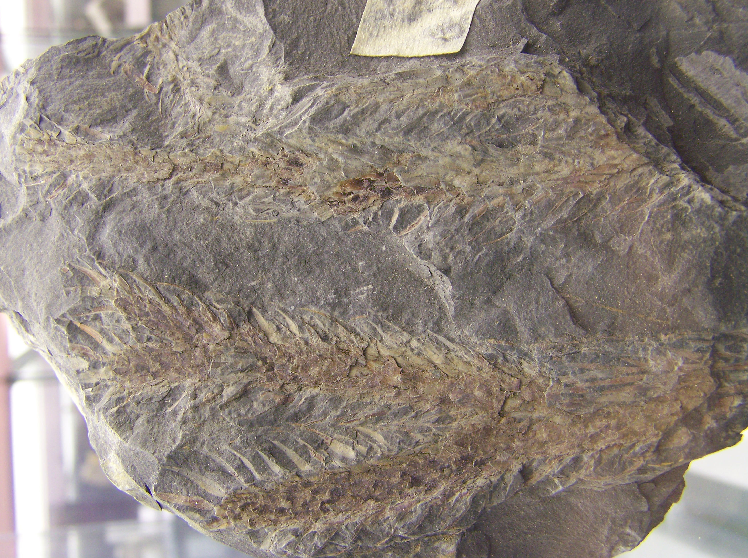 Fossil of the extinct plant species Lepidodendron lycopodioides. From the Westfalian (Upper Carboniferous) at the Piesberg, Germany. Specimen is about 22 cm long. Collection of the Universiteit Utrecht.